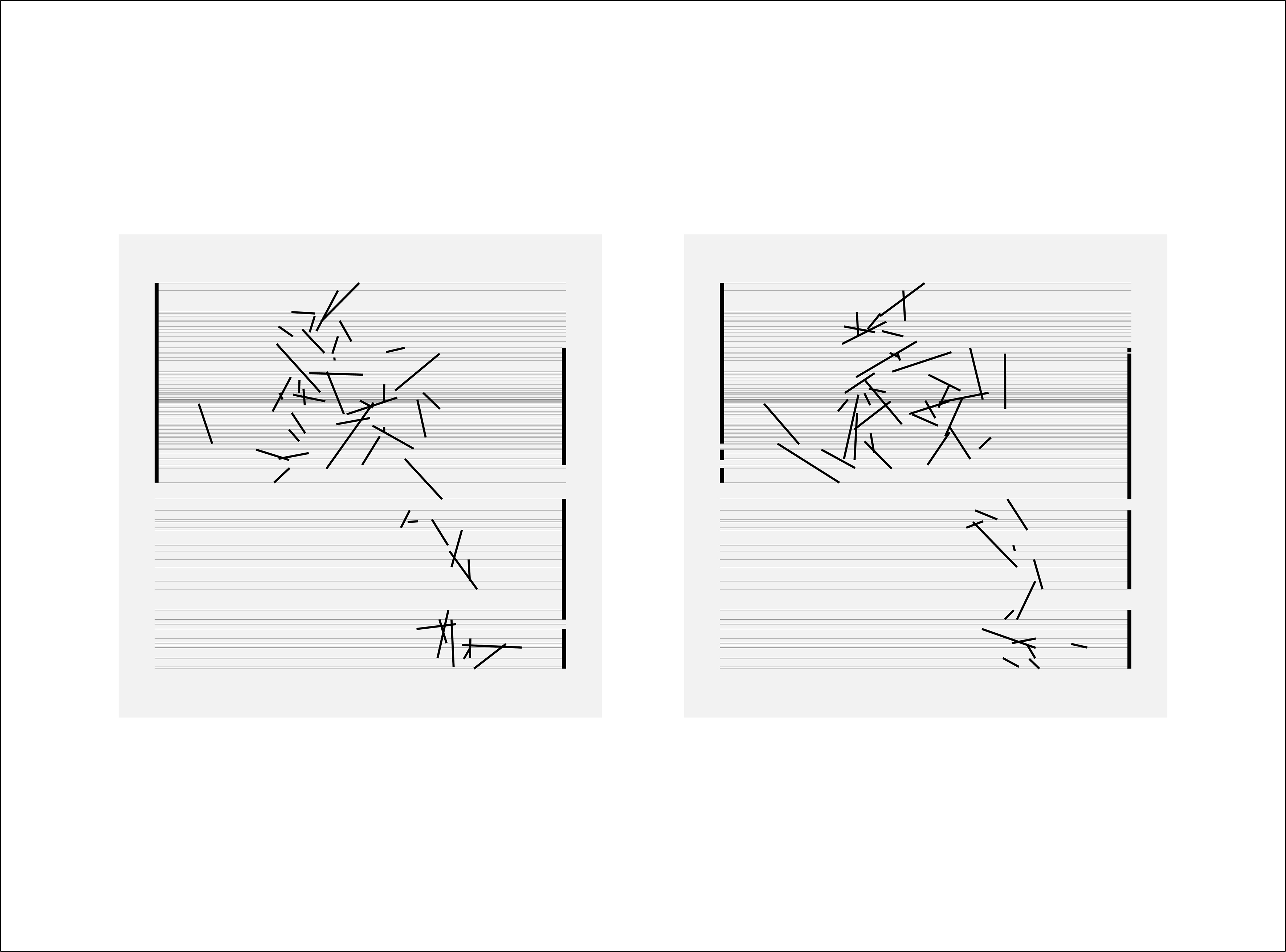 Work of Art "P1682_3735" by Manfred Mohr (2015/17). Pigment ink on canvas, 40.5 x 55 cm.